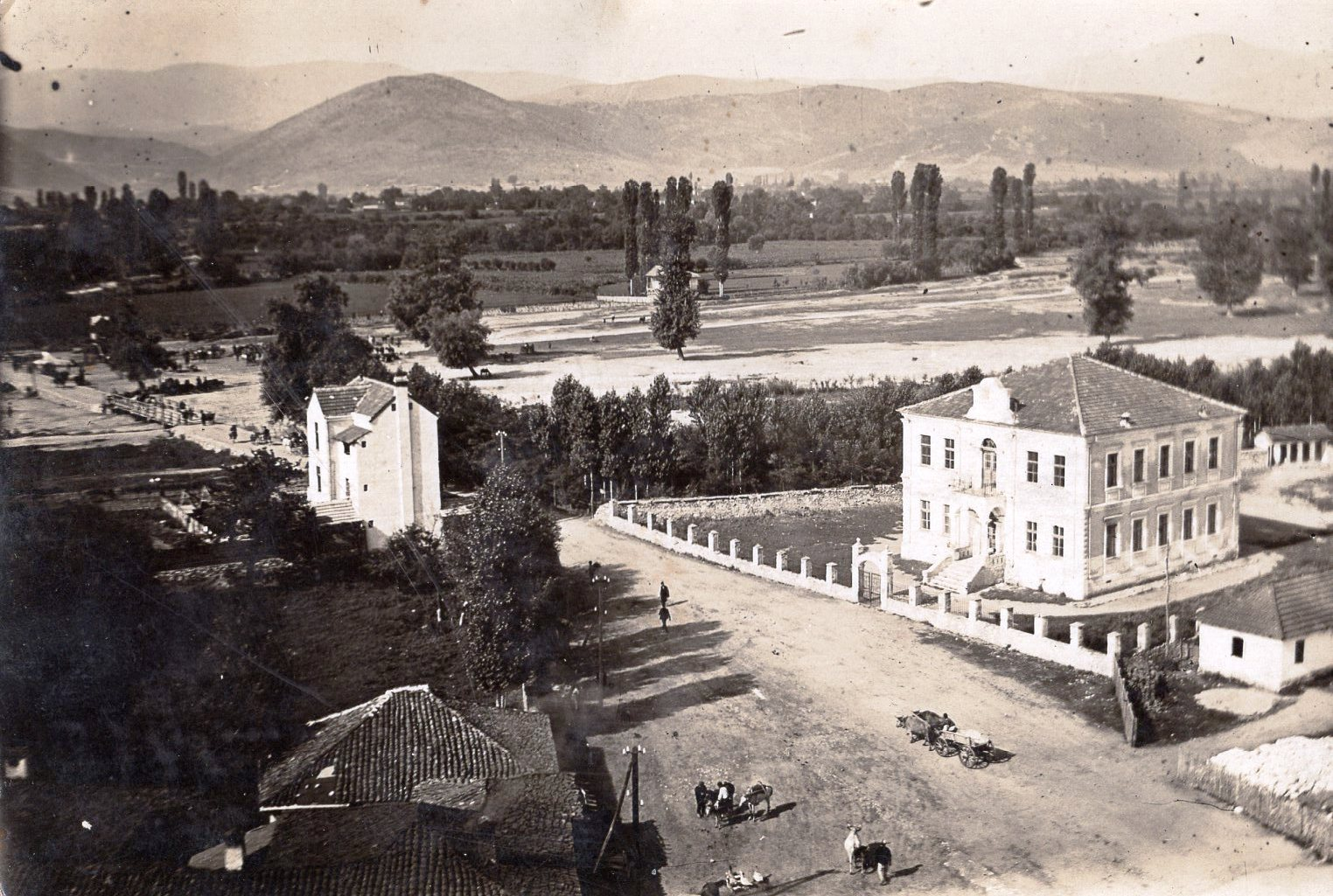 Postcard of Gostivar, from 1921 This media file is produced by Wikipedian in Residence in Category:Wikipedian in Residence at DARM in 2016.